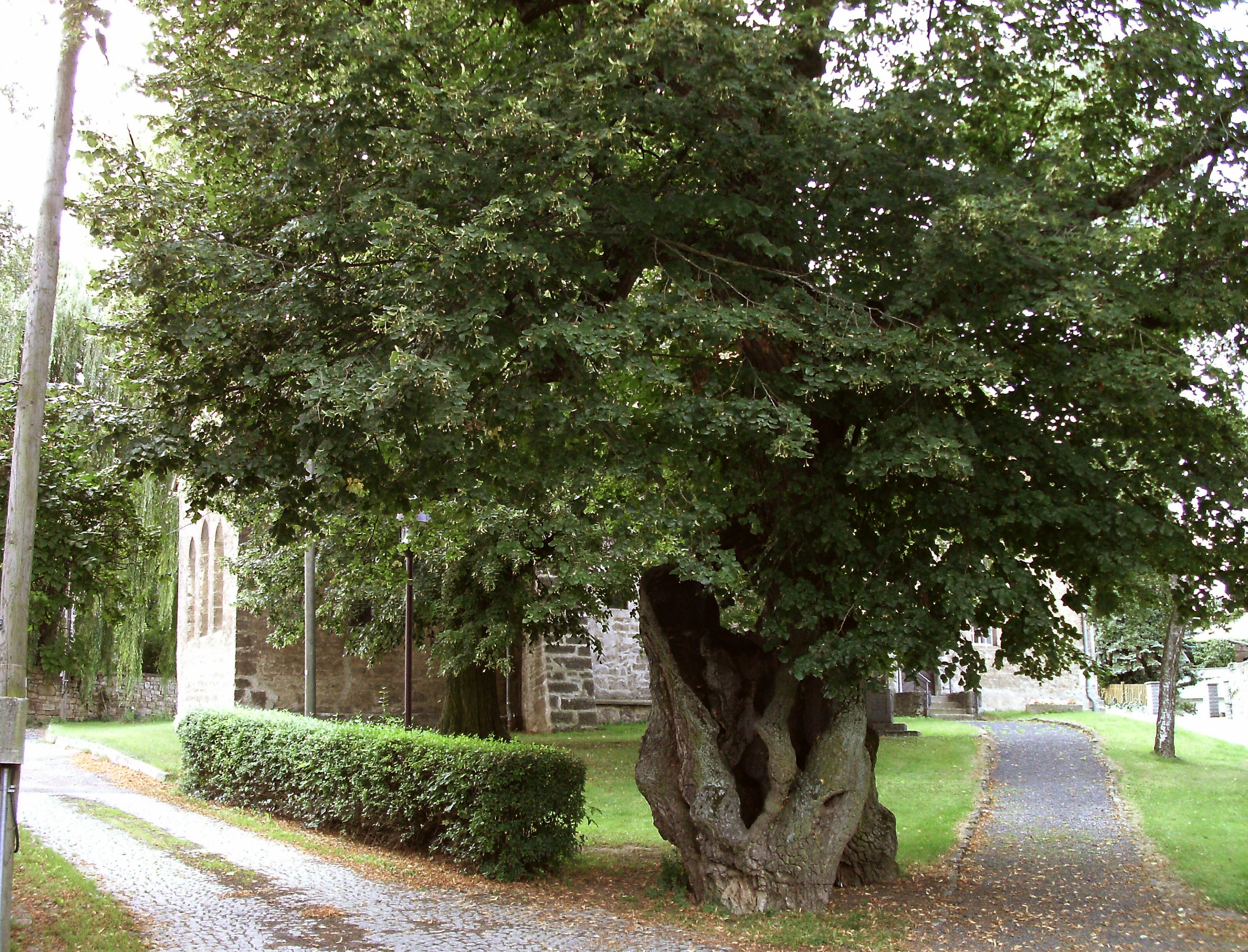 Hollow lime-tree at Umpferstedt church (district of Weimarer Land, Thuringia)